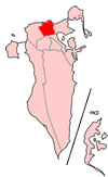 Map of Bahrain showing Jidd Haffs municipality. The municipalities were dissolved in 2002 and replaced with governorates.